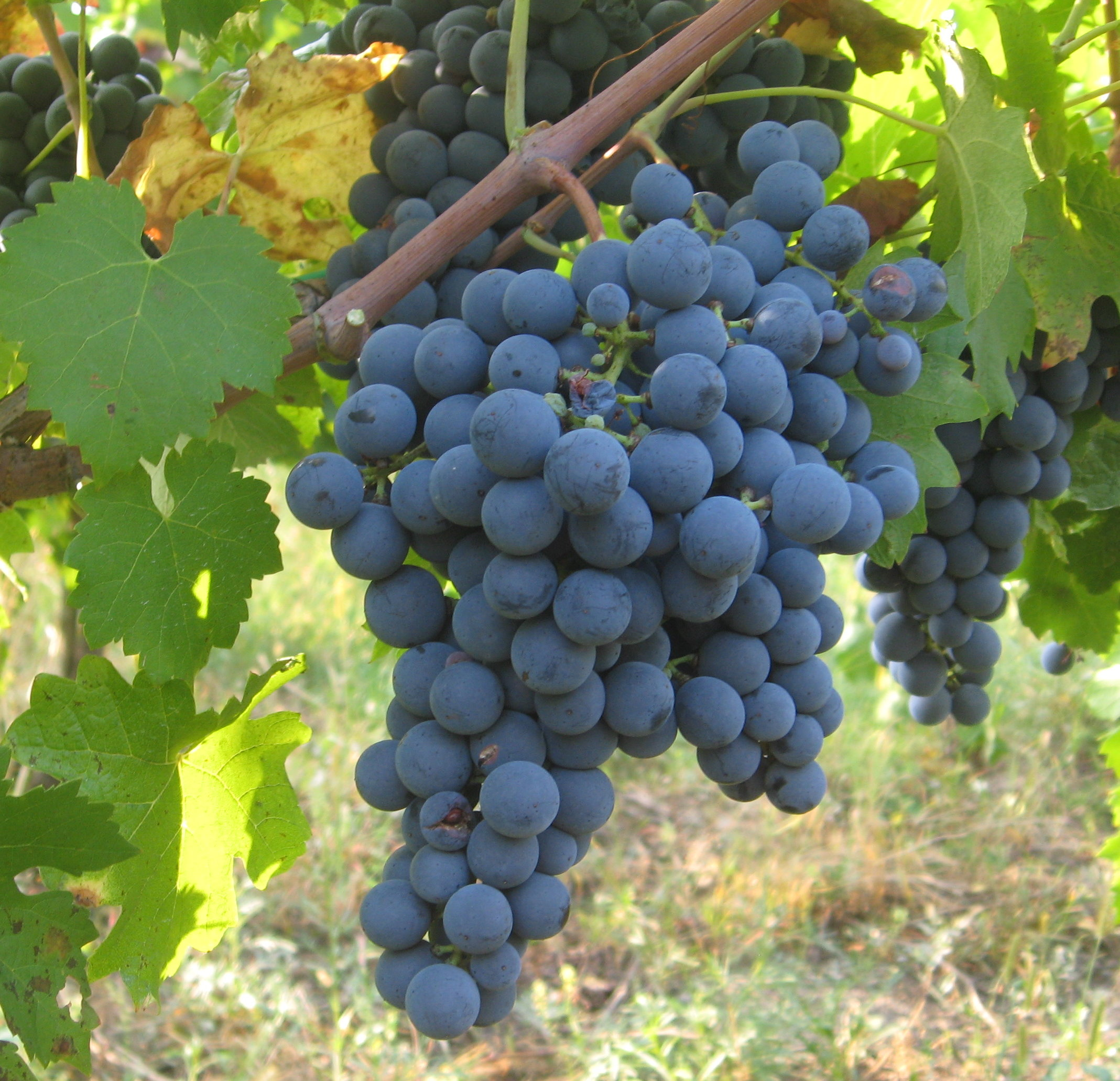 Carmenere grapes grown in Equinox Vineyard, Olanesti, Moldova